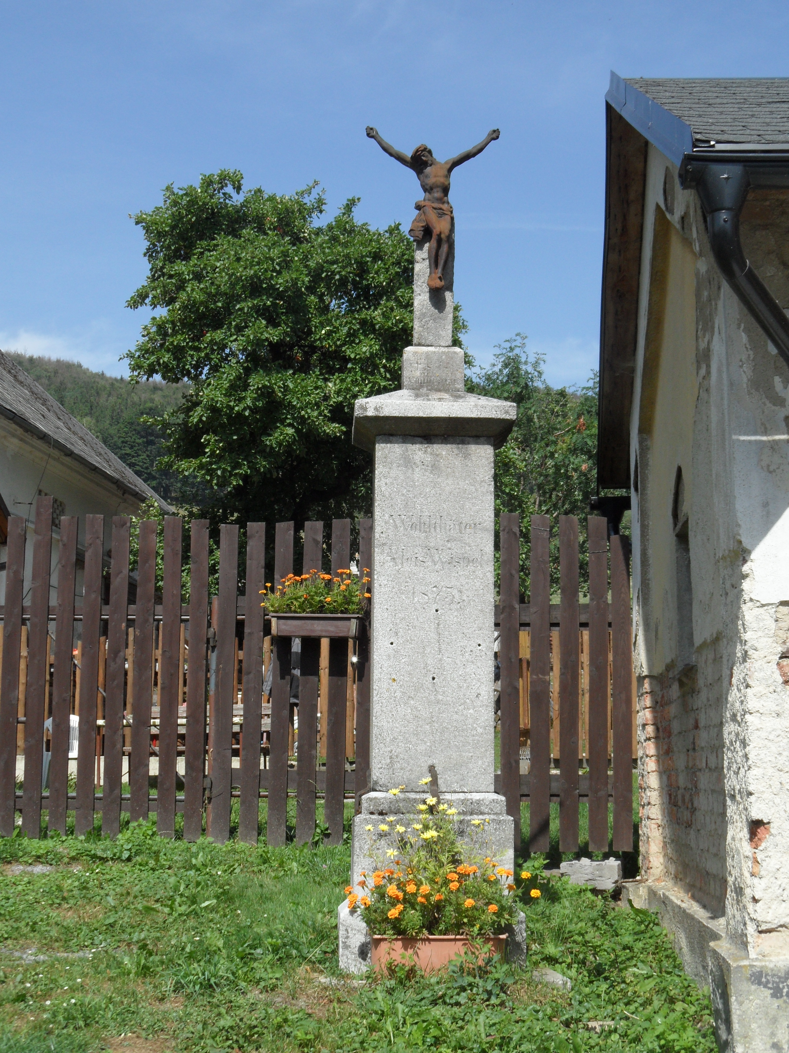 Vojtovice A. Statue near Church. Jeseník District, the Czech Republic.